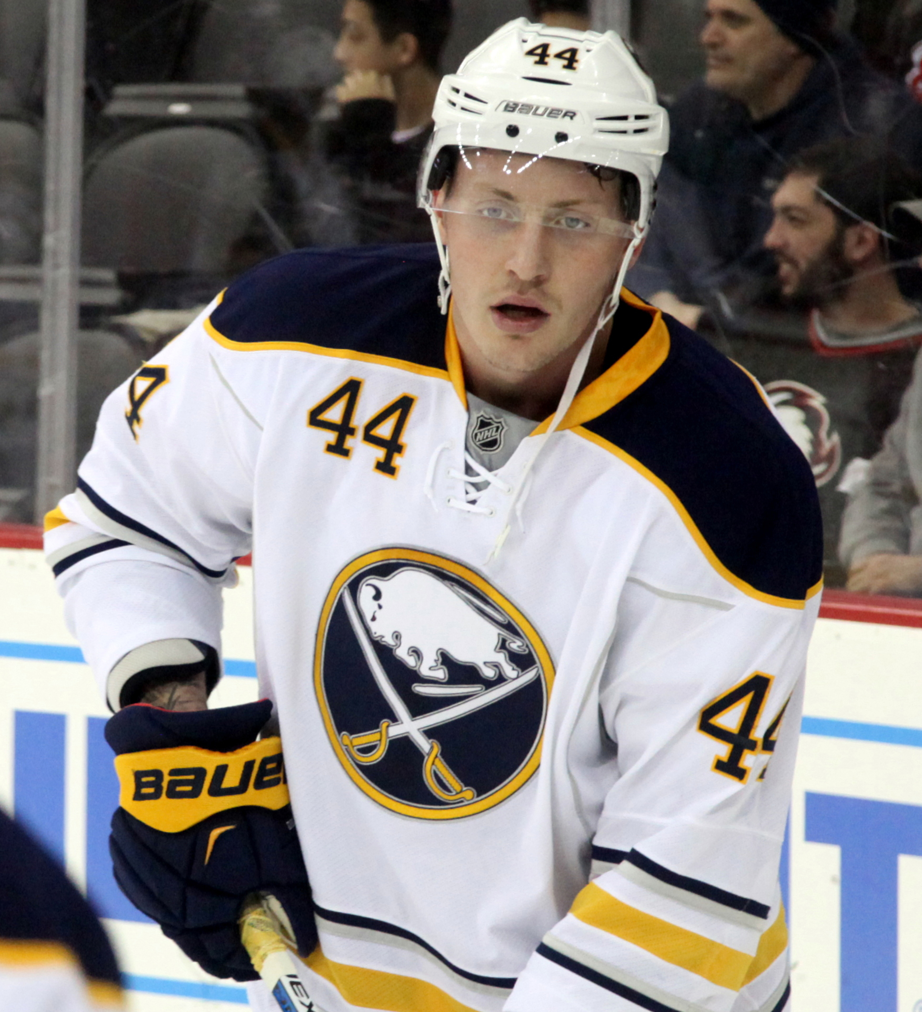 Nicolas Deslauriers in April 2016.